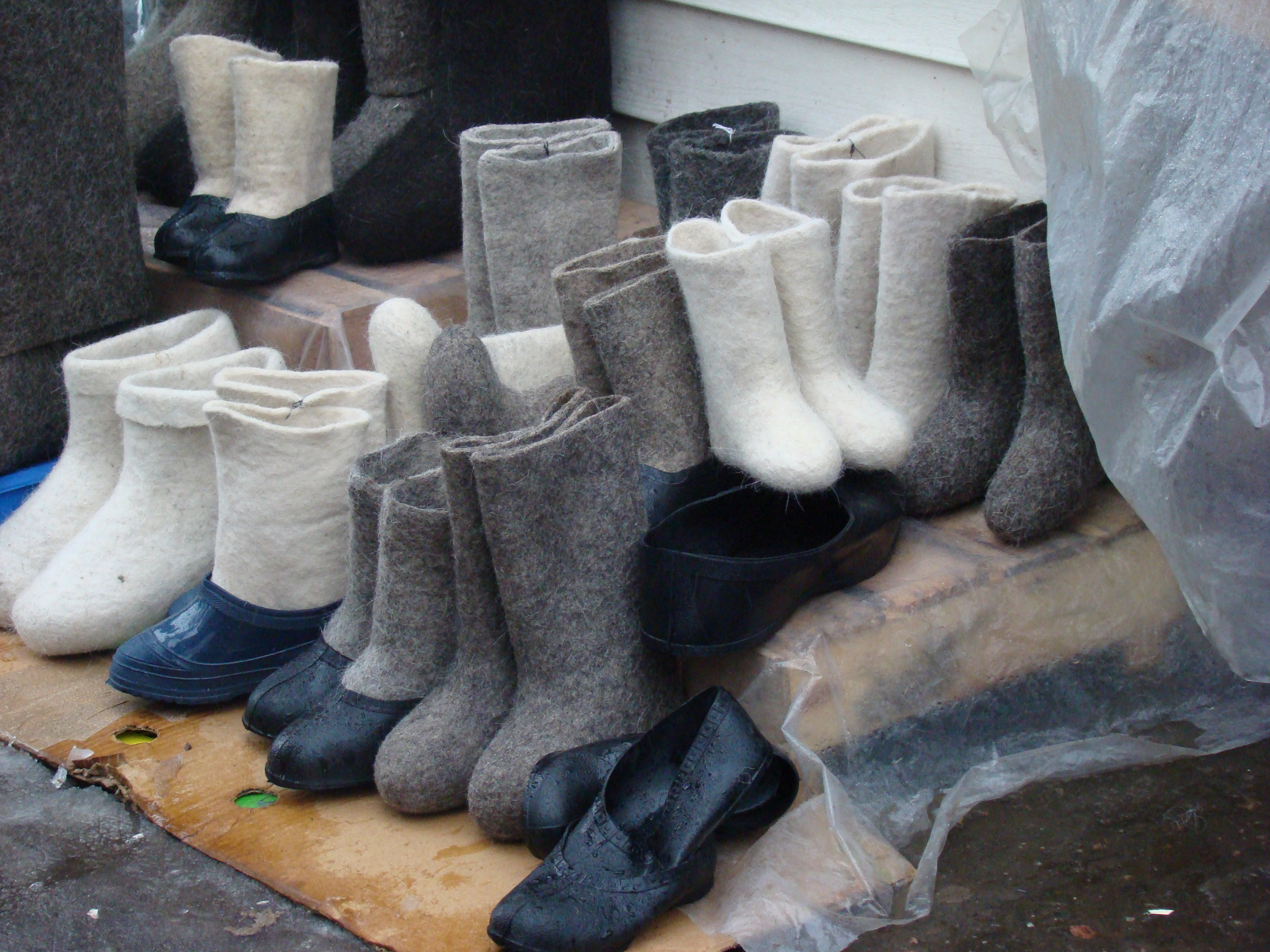 Valenki